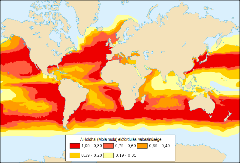 Map of Ocean sunfish's distribution.